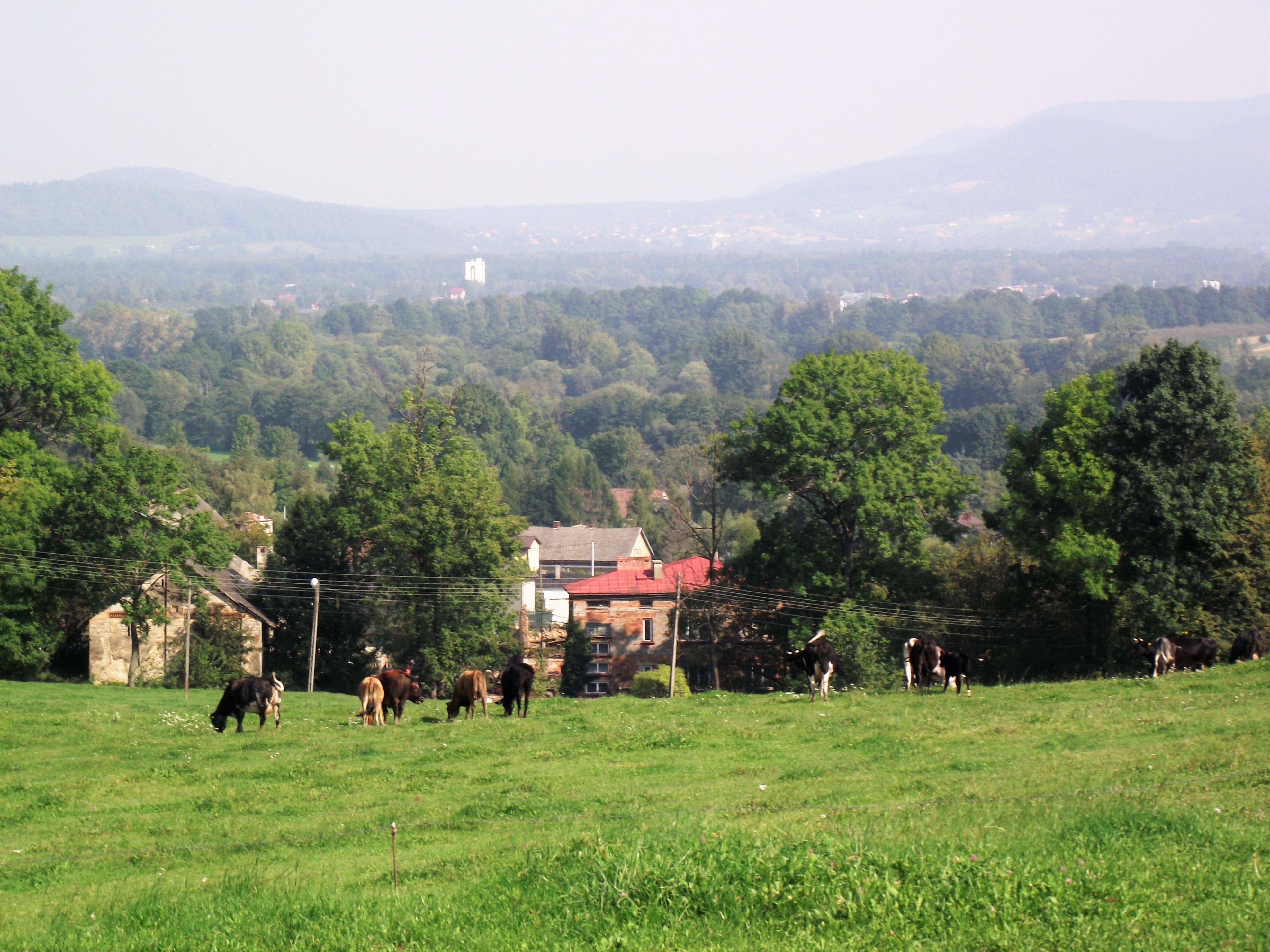 The landscape near Godziszów, Cieszyn Silesia.